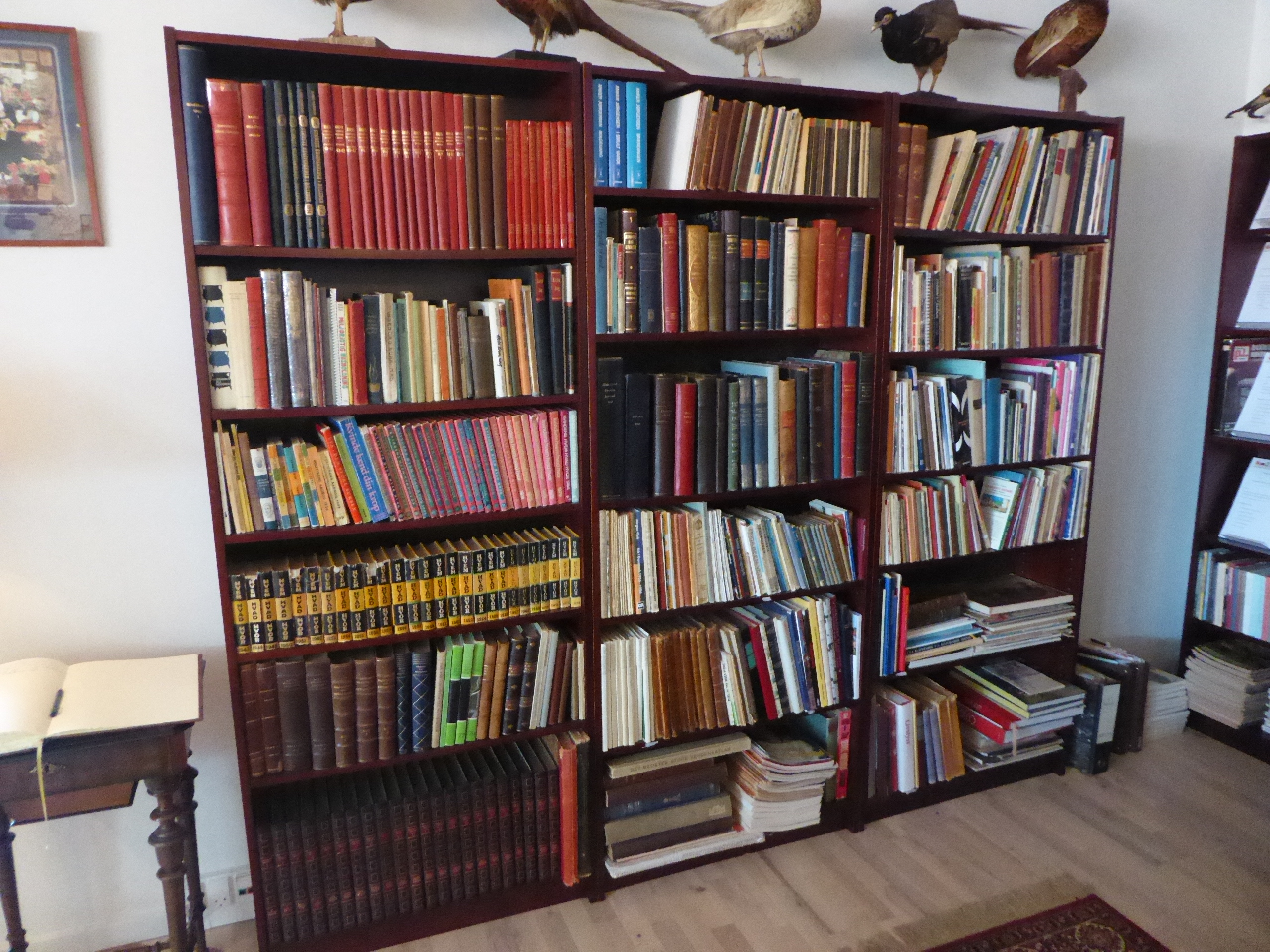 Bookcases in the museum Tidens Samling (Collection of the time) in Odense in Denmark.